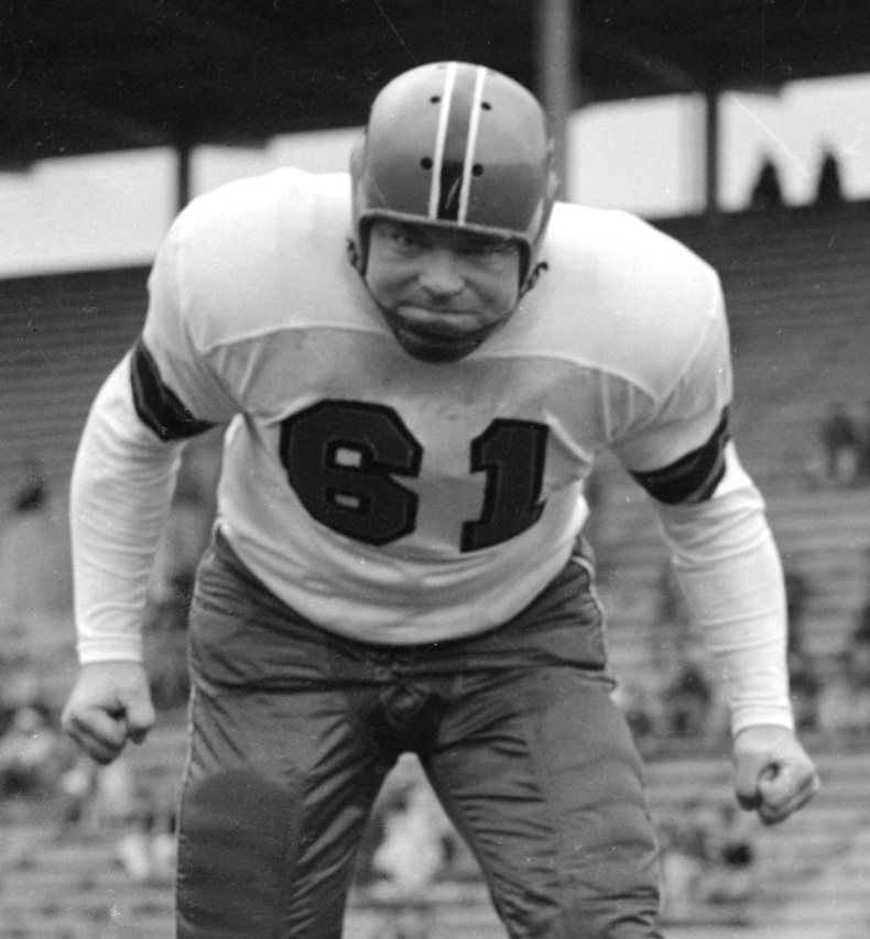 B.C. Lions football club, Lorne Reid, Number 61 VPL Accession Number: 84780G Date: July 10, 1954 Photographer/Studio: Jones, Art Content: Part of a series 84780+ (63 photos) Topic: Sports Sports teams Football players Stadiums Costume Sports uniforms Person: Reid, Lorne (B.C. Lions Football club) Organization: B.C. Lions Football Club Location: British Columbia - Vancouver More information on our historical photograph collection